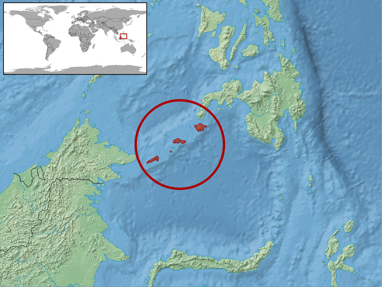 geographic distribution of Sphenomorphus biparietalis (IUCN) syn. Tytthoscincus biparietalis (RDB)